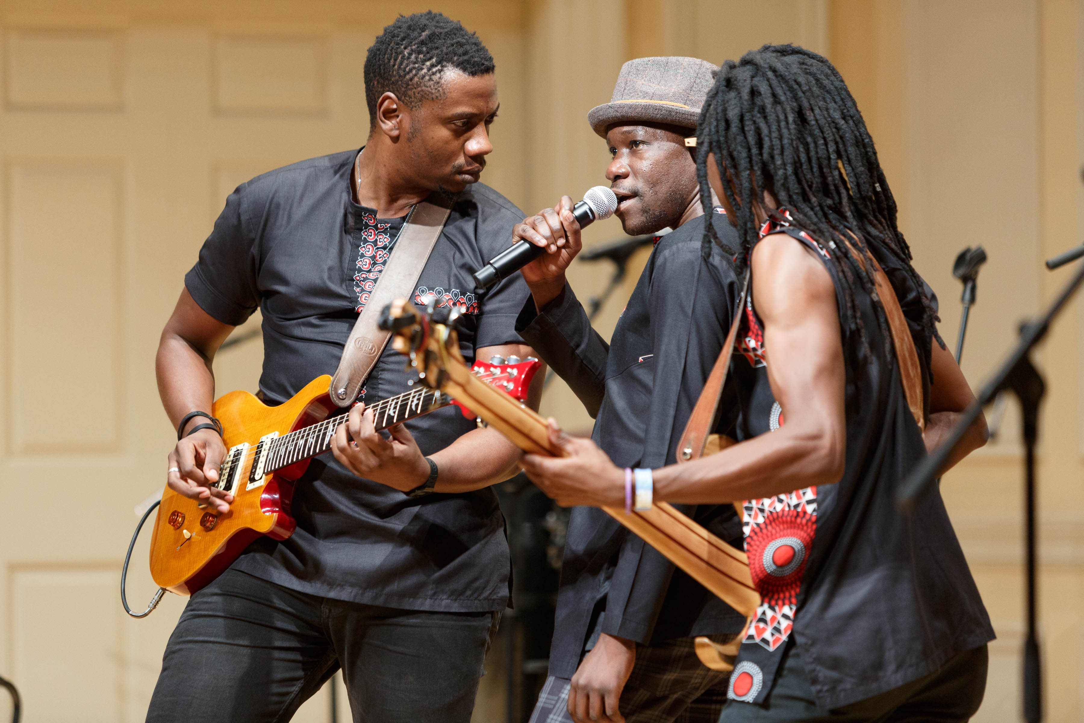 Mokoomba performs during a Homegrown Concert Series event, April 15, 2019. Photo by Shawn Miller/Library of Congress. Note: Privacy and publicity rights for individuals depicted may apply.